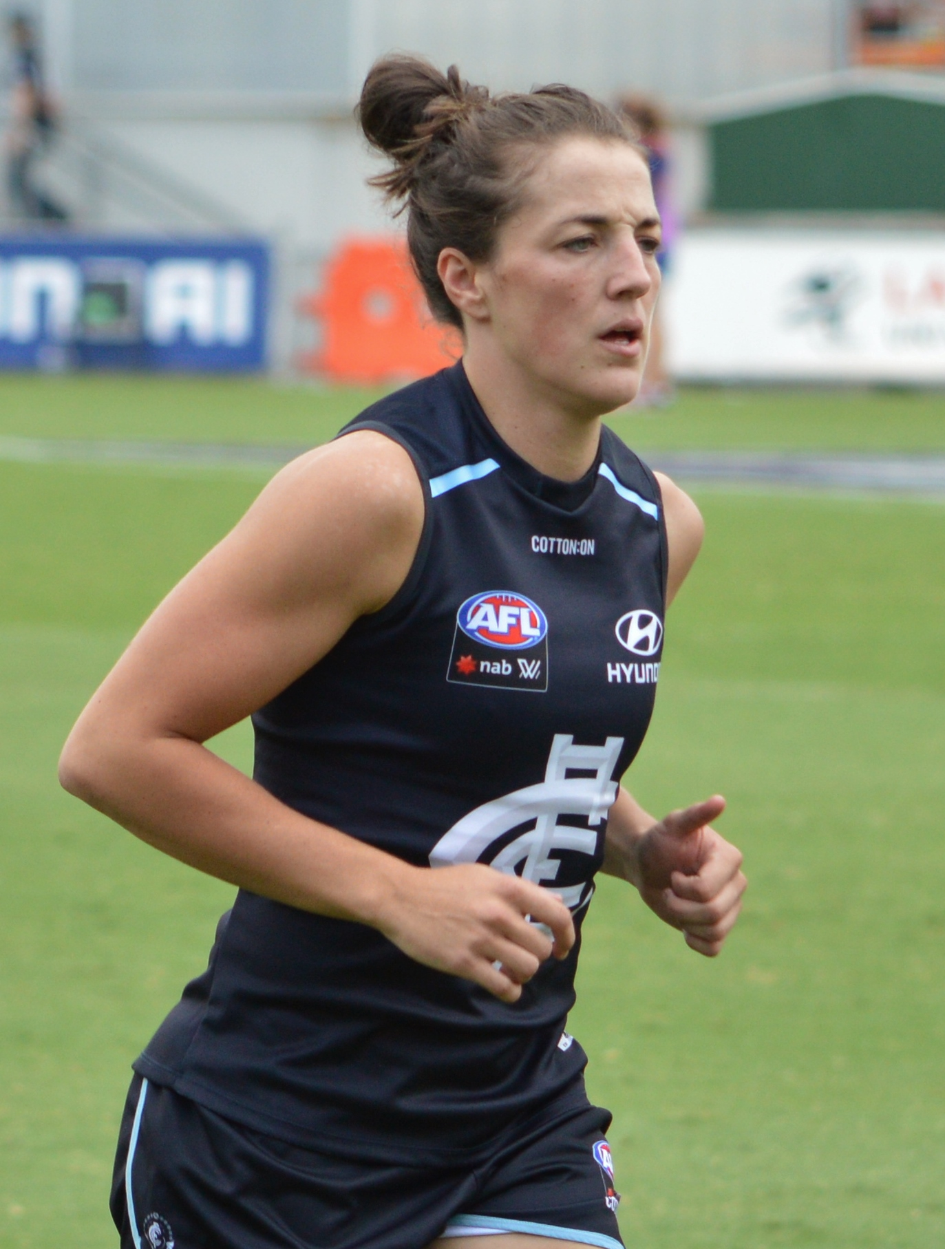 Kerryn Harrington during the round 6, 2018 AFL Women's match between Carlton and Melbourne.